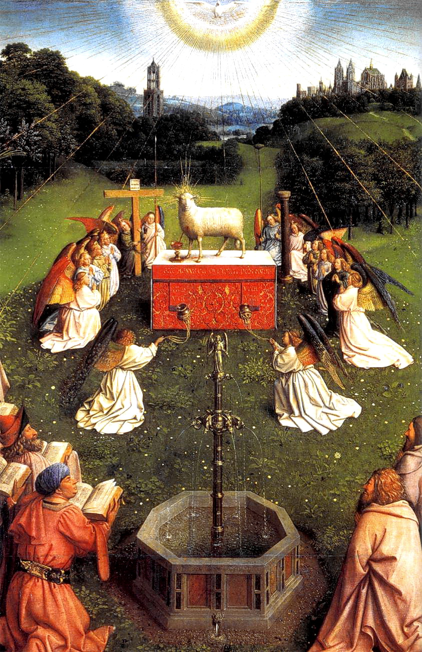 Jan van Eyck painting "Ghent Altarpiece", finished 1432. Detail: adoration of the lamb